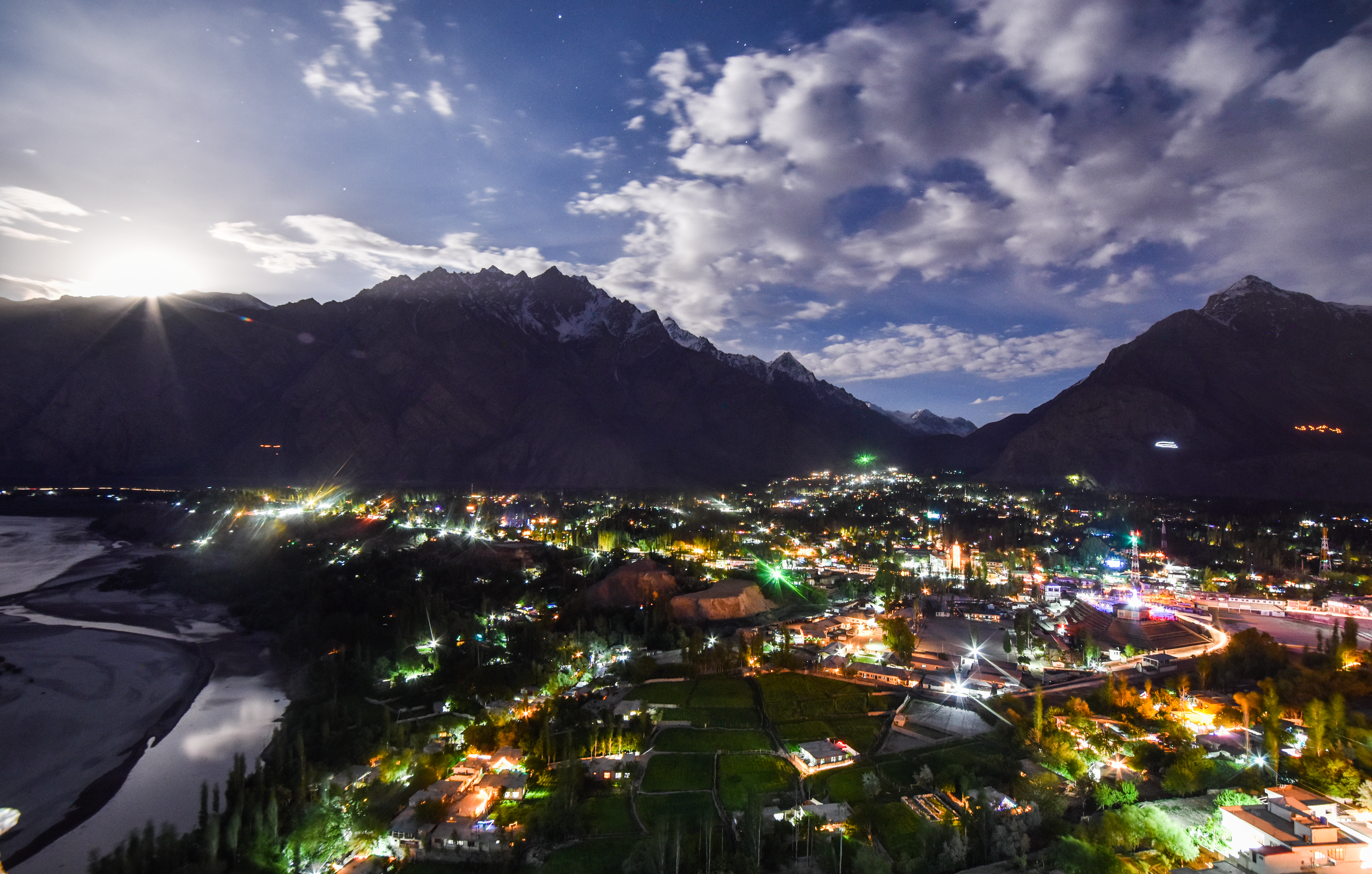 MoonRise In Skardu Gilgit Baltistan Pakistan There is so much beauty when your eyes lay lost in all the city lights.